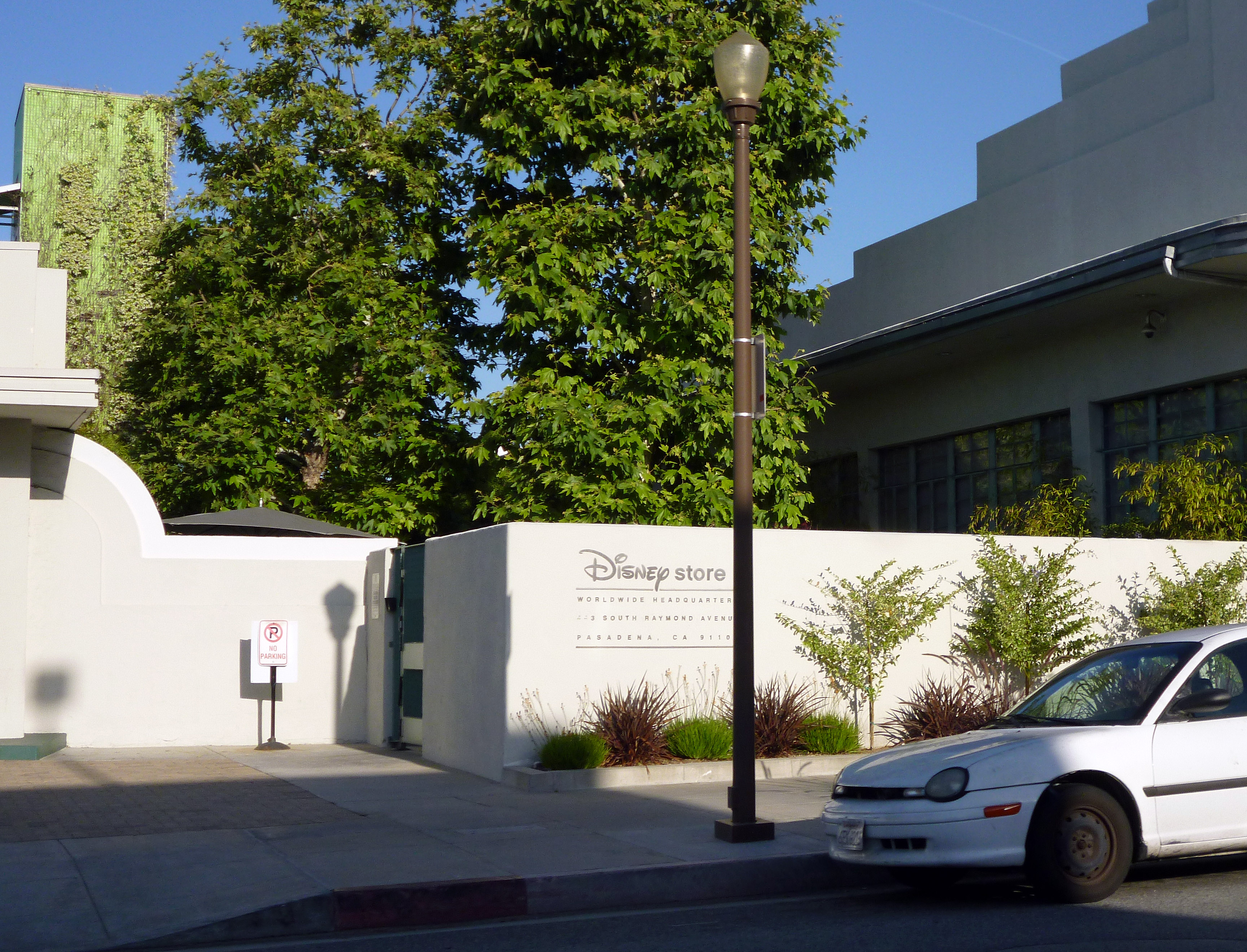 Entrance to Disney Store Worldwide Headquarters at 443 South Raymond Street, Pasadena, California.